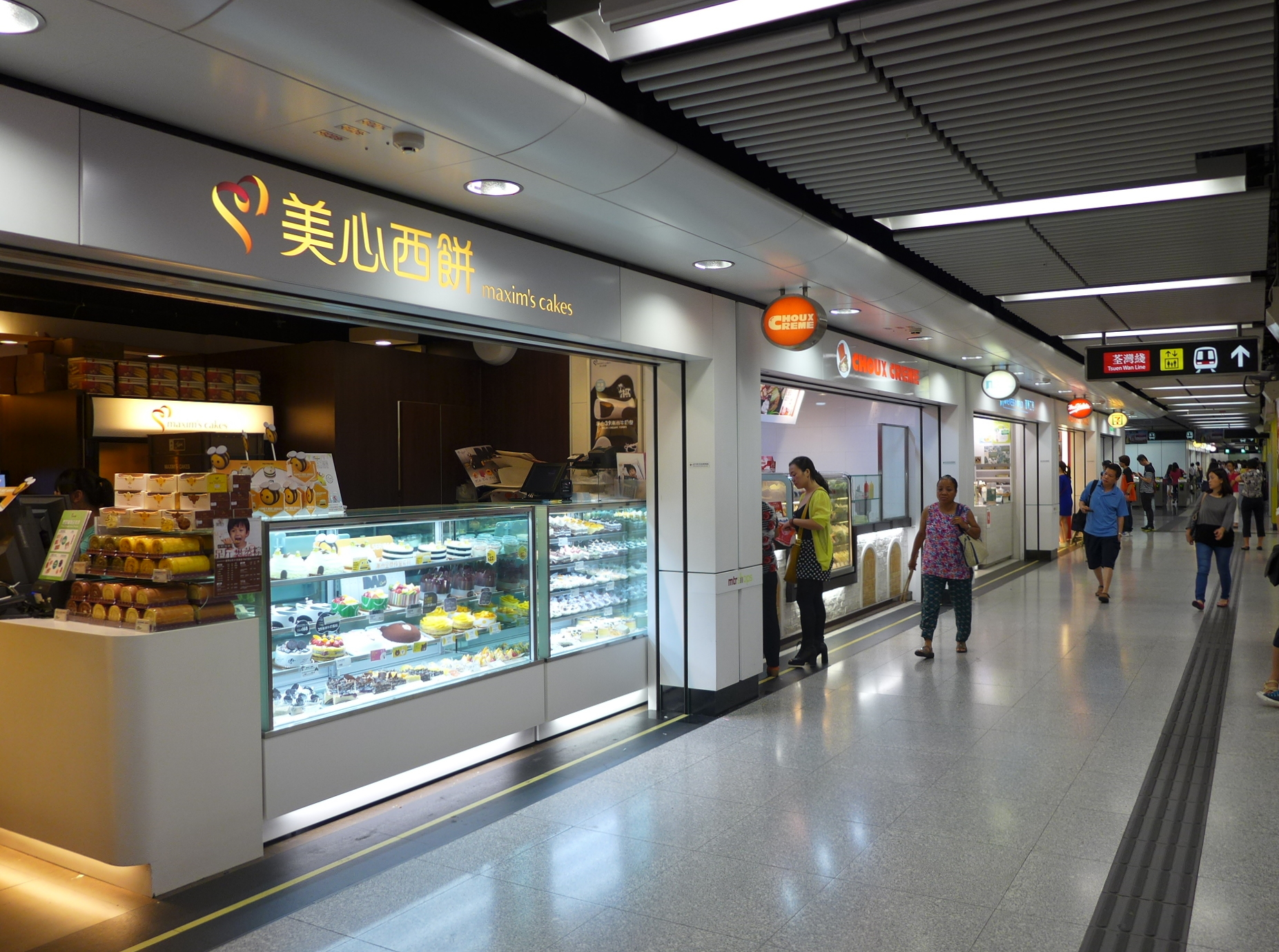 Tsim Sha Tsui Station Concourse Shops